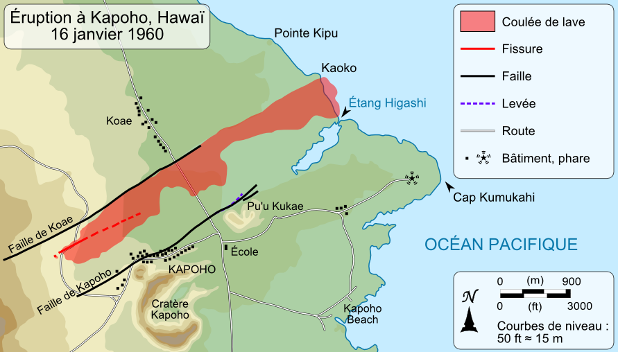 Map of the lava flow the january 16, 1960 during the 1960 Kilauea eruption, Hawaii, United States